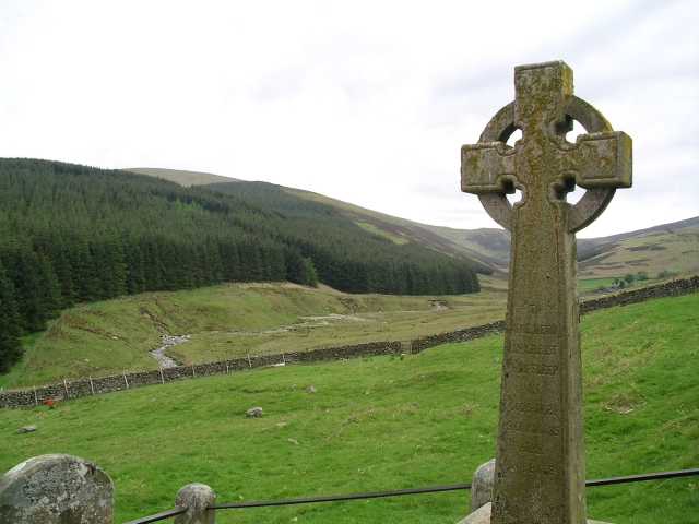 Celtic cross and reputed site of "St Gordian’s Kirk" For a discussion of this site